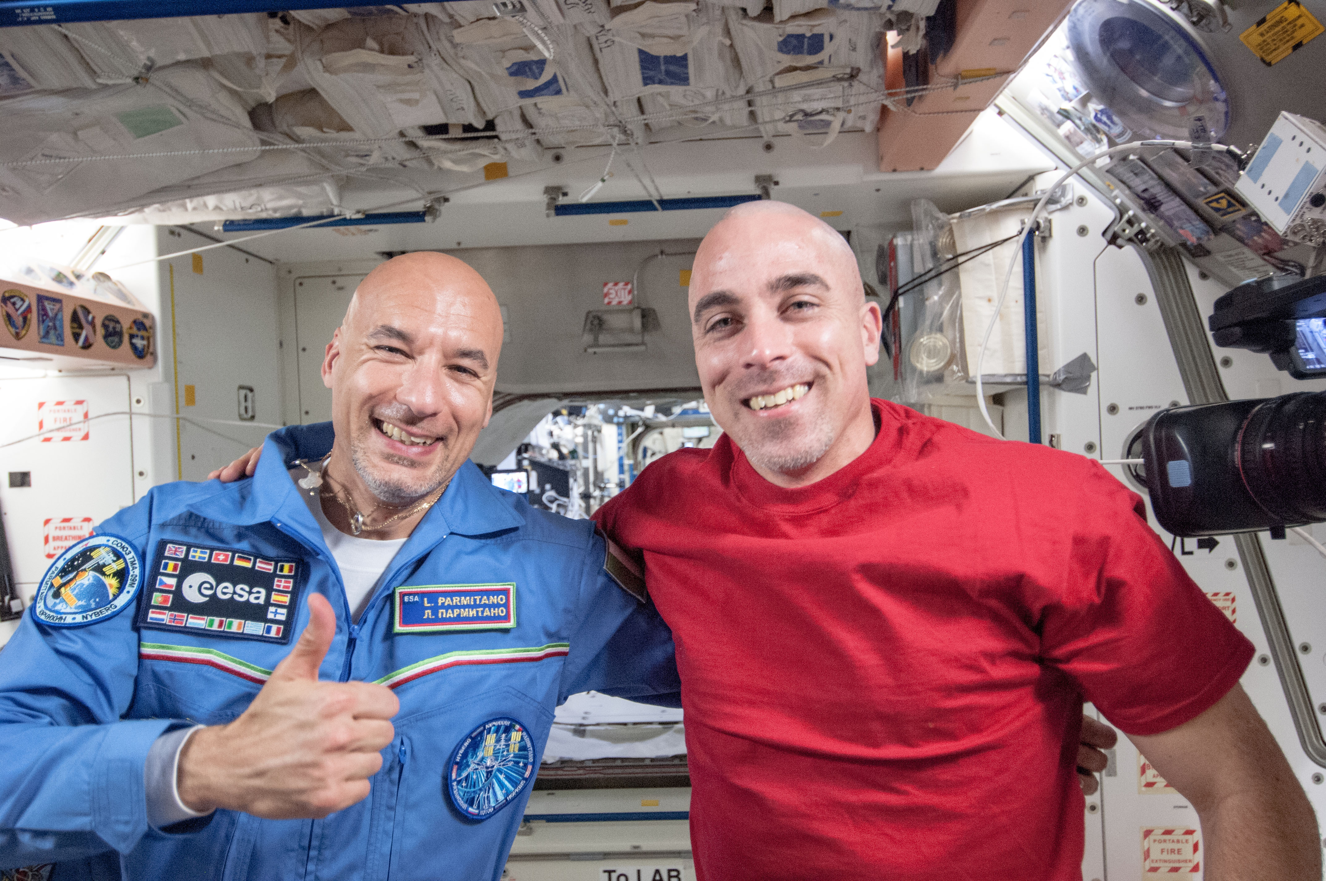 With the recent "close shave haircut" of Expedition 36 Flight Engineer Chris Cassidy, (right), the NASA astronaut has added to any common denominators that he shares with Flight Engineer Luca Parmitano (left) of the European Space Agency. The two are pictured in the Unity node of the International Space Station. Cassidy's new look came as a complete surprise to Parmitano and the two flight engineers who had docked earlier with the International Space Station.